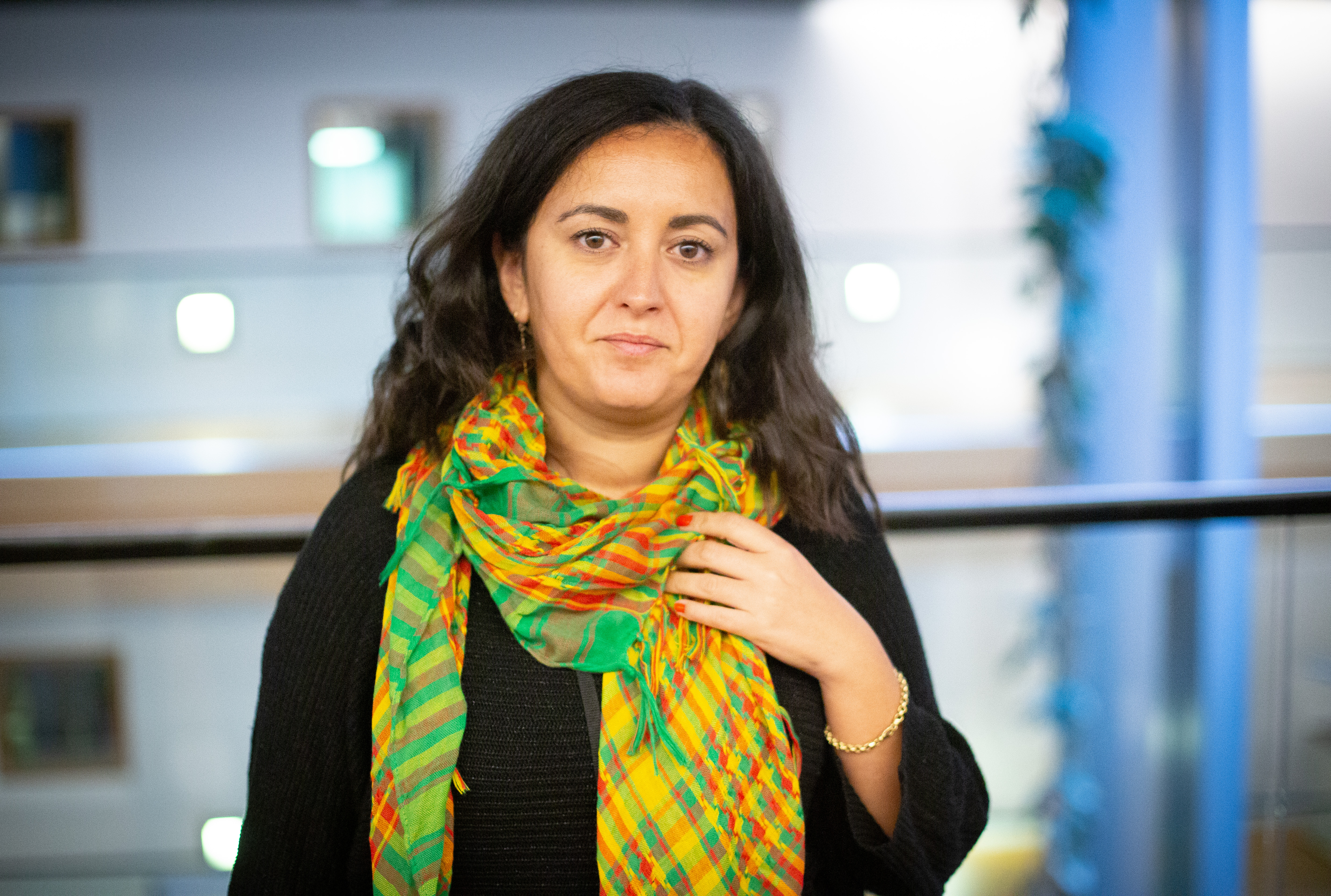 This week in #Eplenary our MEPs showed their solidarity with the Kurdish people #Rise4Rojava